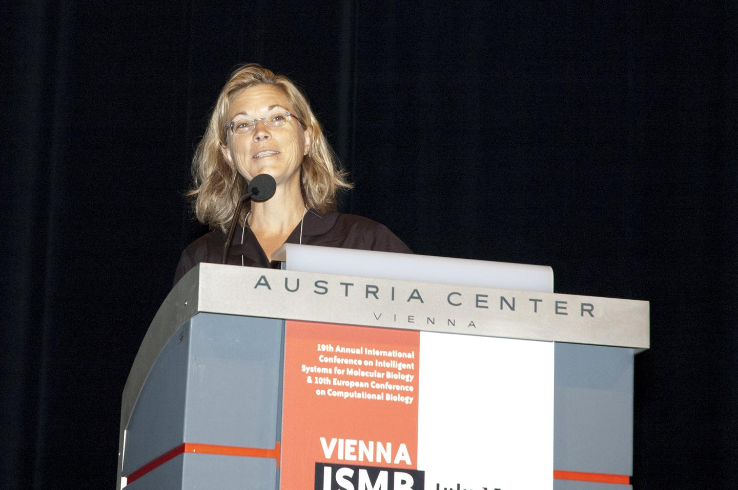 Terry Gaasterland invites delegates to ISMB 2012 in Long Beach, CA, USA